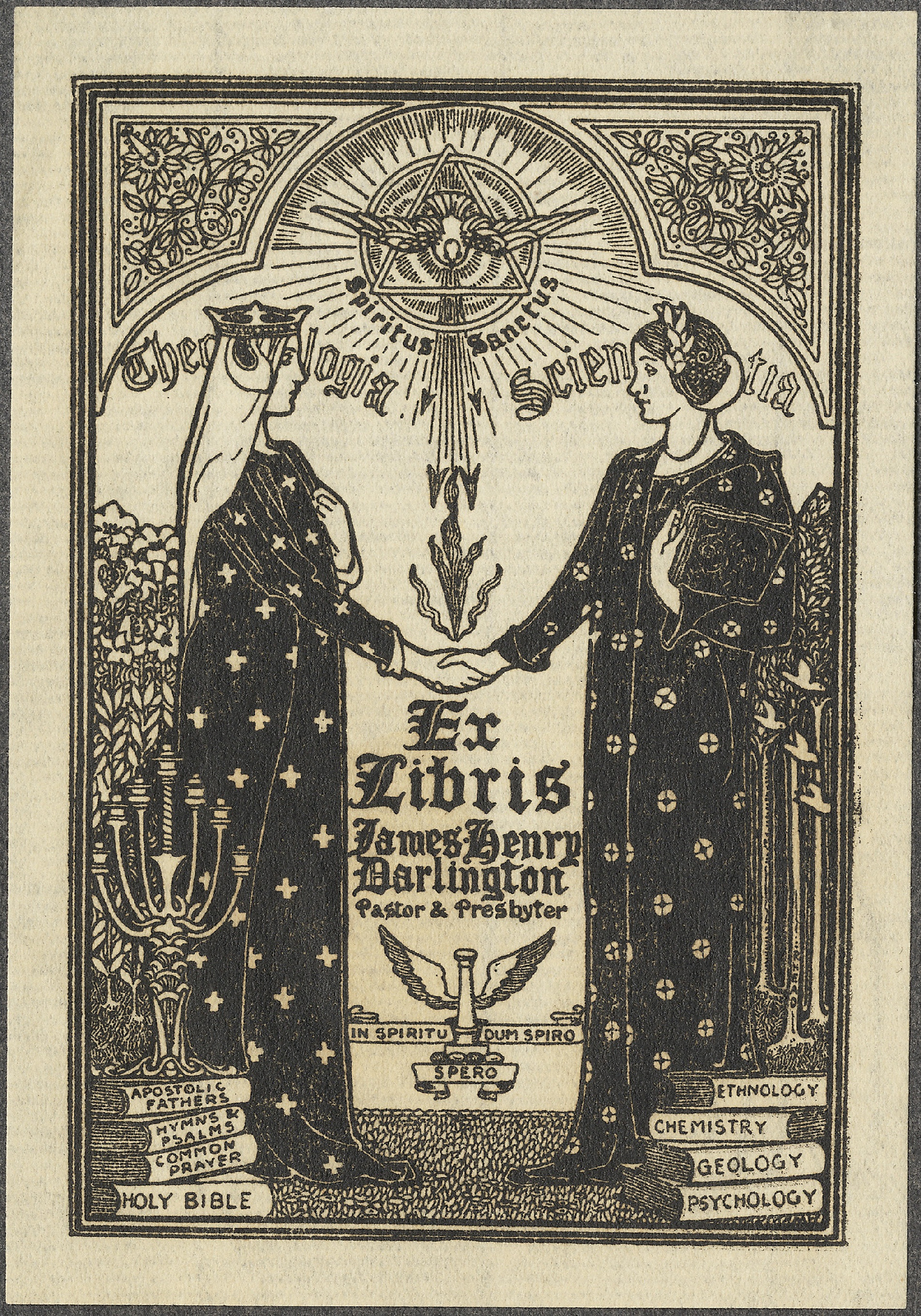 Bookplate of James Henry Darlington, first Episcopal Bishop of Harrisburg, PA, designed by Louis Rhead in 1902. "Two women (Theology and Science) shake hands under symbol of the Holy Spirit"